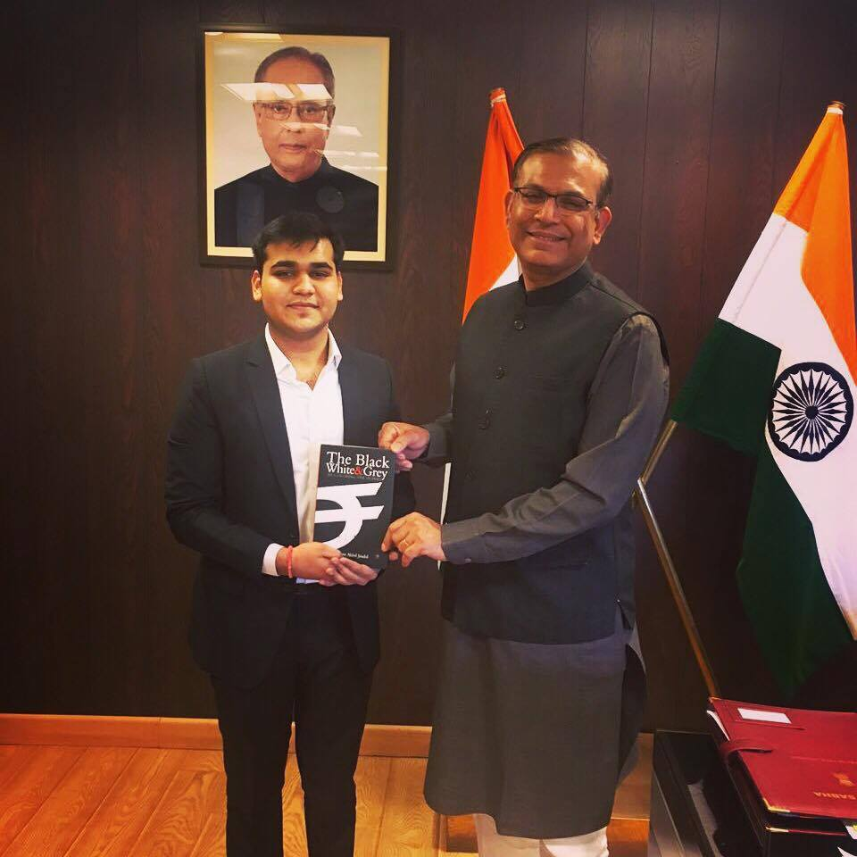 Pragun Akhil Jindal with MOS Civil Aviation Shri. Jayant Sinha